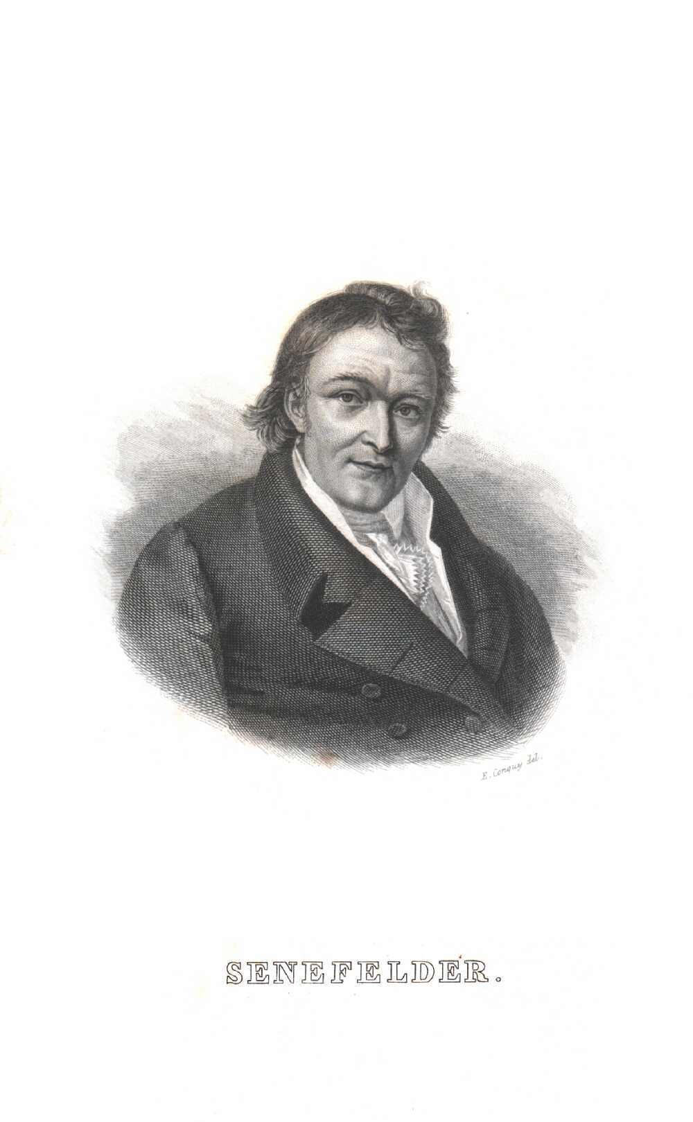 Alois Senefelder (1771-1834), inventor of lithography